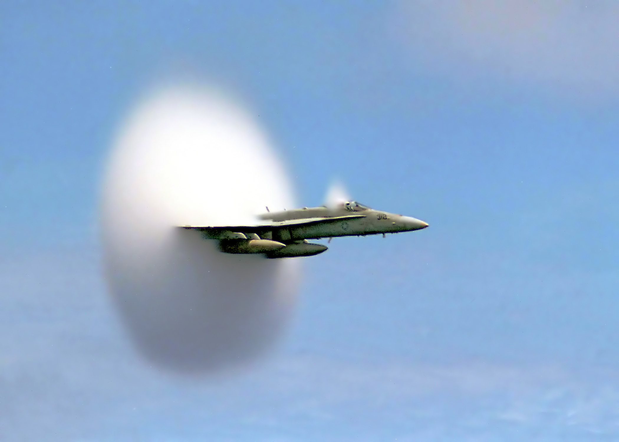 Off the coast of Pusan, South Korea: An F/A-18 Hornet assigned to Strike Fighter Squadron One Five One (VFA-151) breaks the sound barrier in the skies over the Pacific Ocean. VFA-151 is deployed aboard USS Constellation (CVN 64). This is an edited version (reduced grain).